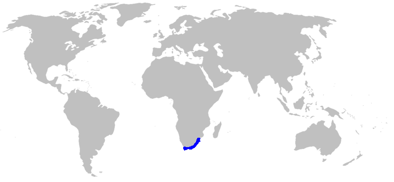 Plant family Agapanthaceae distribution map